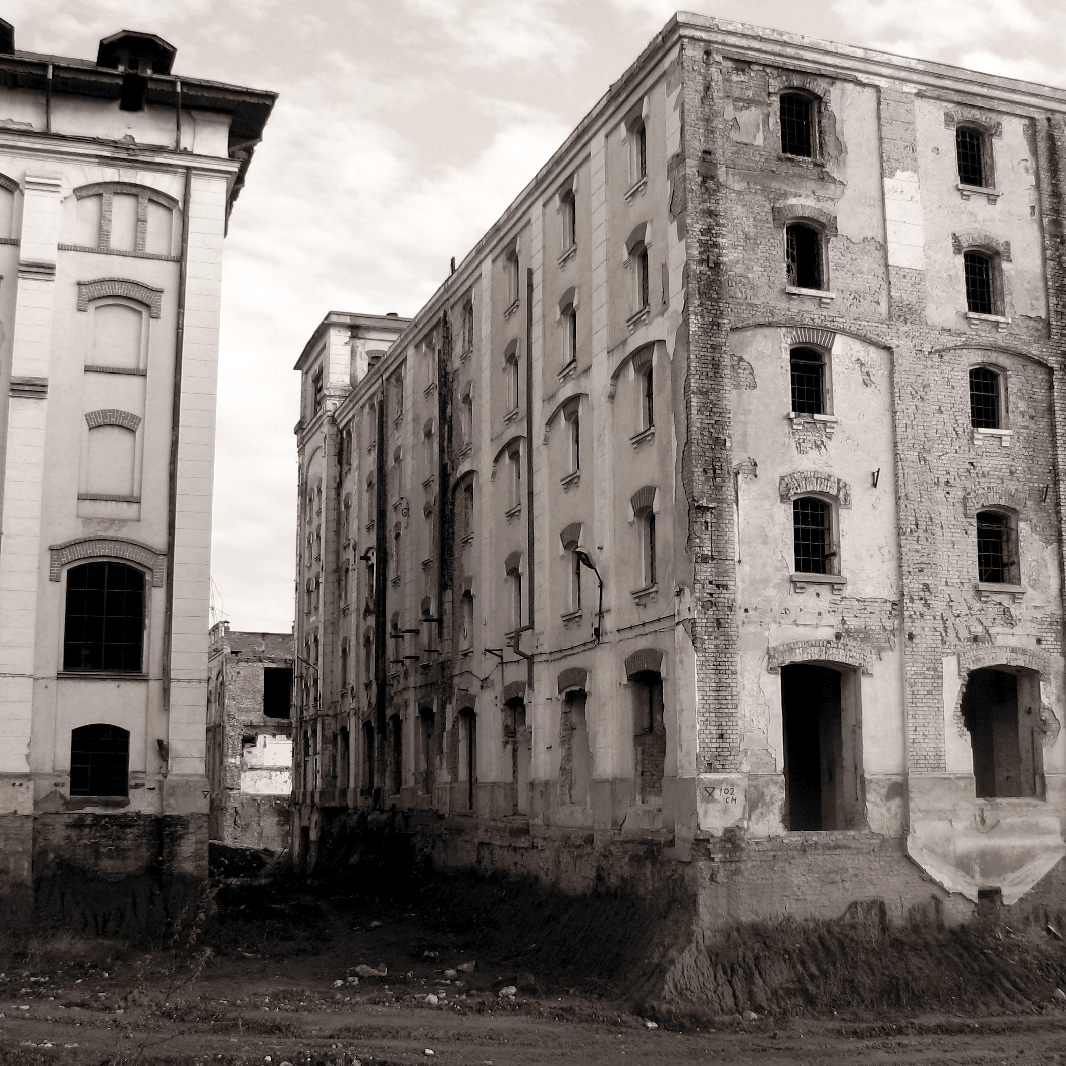 Bragadiru -Rahova Beer Factory